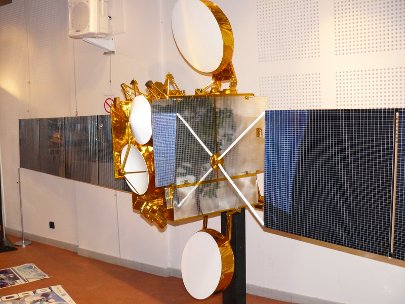 1/4th scale mockup of the Eutelsat Eurobird satellite, a Spacebus 3000B2